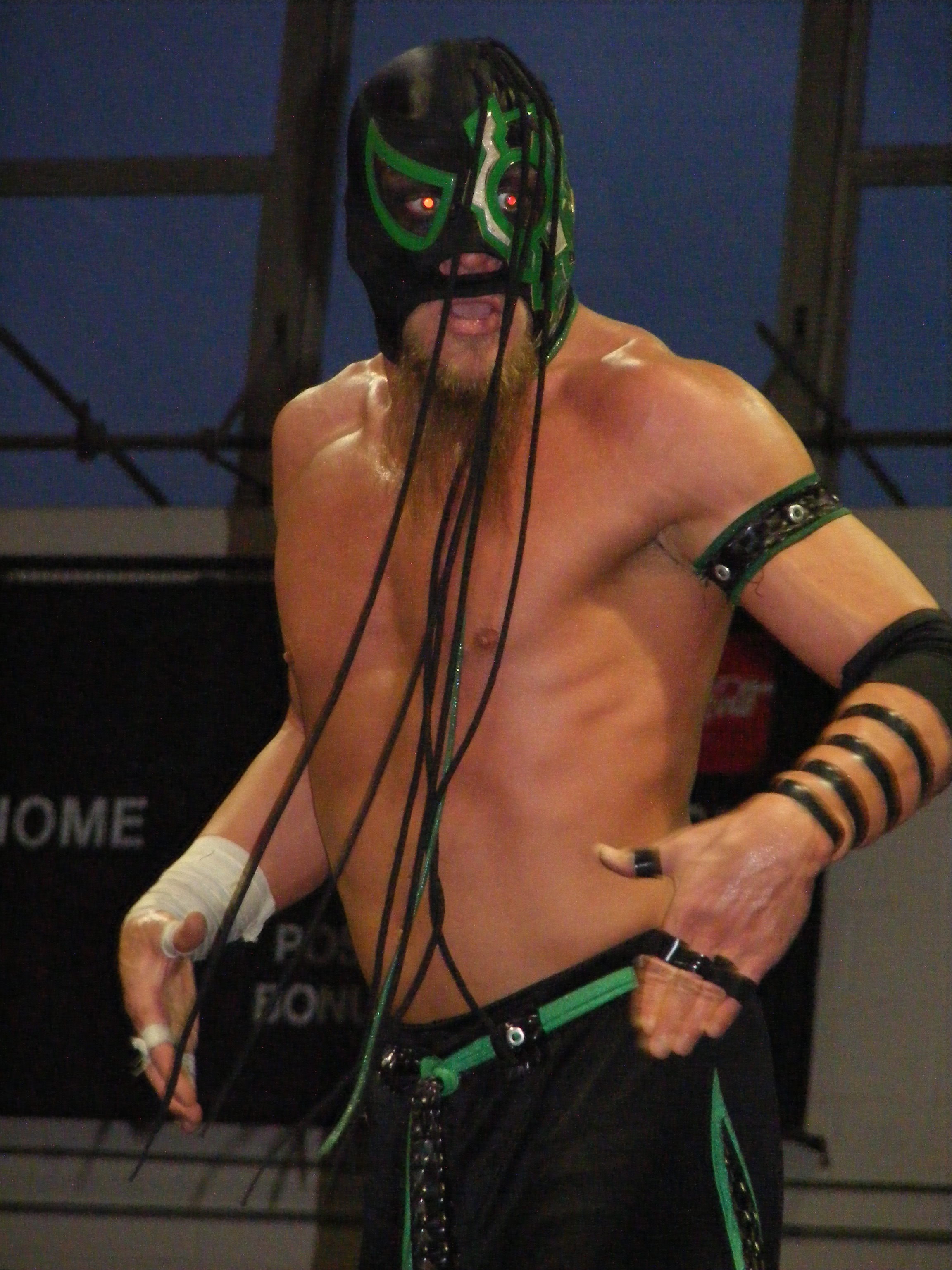 Professional wrestler Delirious (real name William Johnston) at an APW show in May 2009